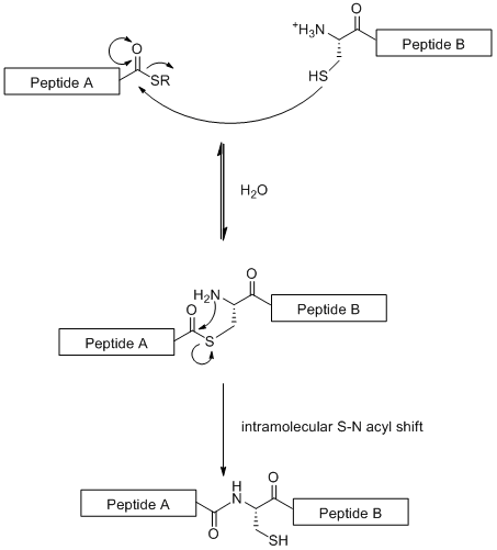 GlcNAc_Beta_Asn